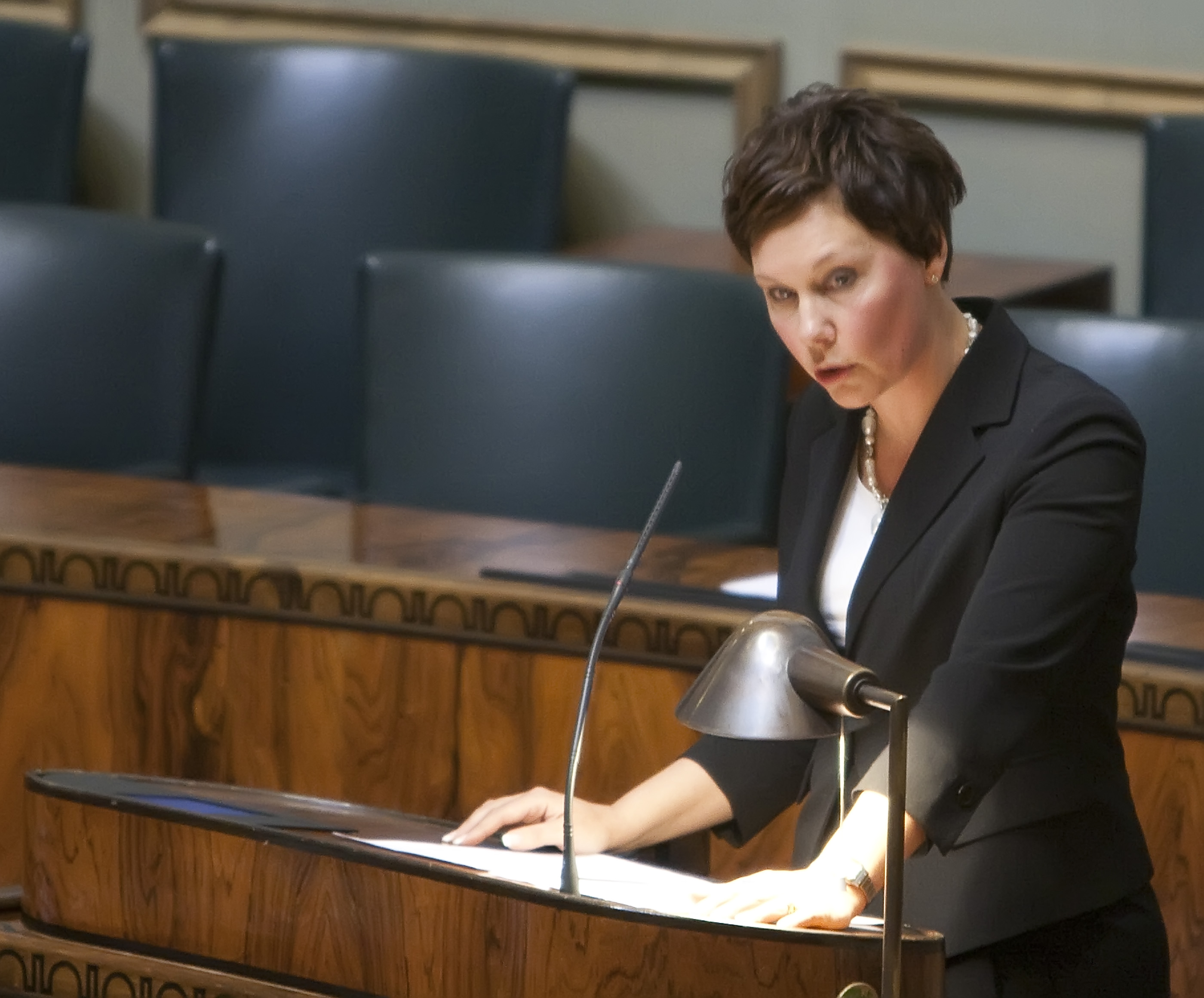 Anne-Mari Virolainen, member of Finnish parliament at the parliament in 2009.